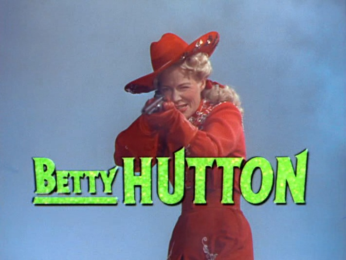 Cropped screenshot of Betty Hutton from the trailer for the film Annie Get Your Gun (1950).